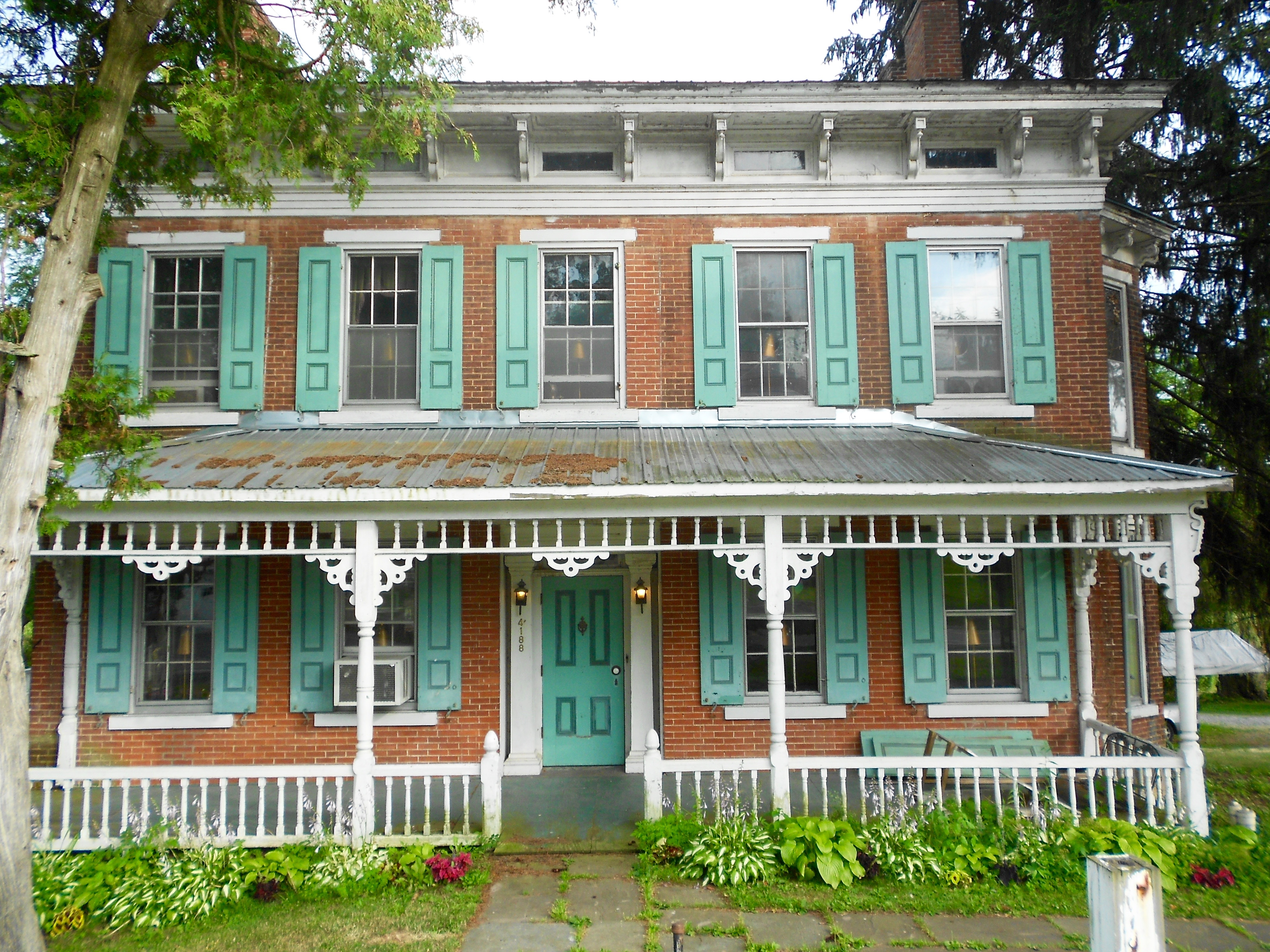 The Major Jared B Fisher House on the National Register of Historic Places in Centre County, Pennsylvania.